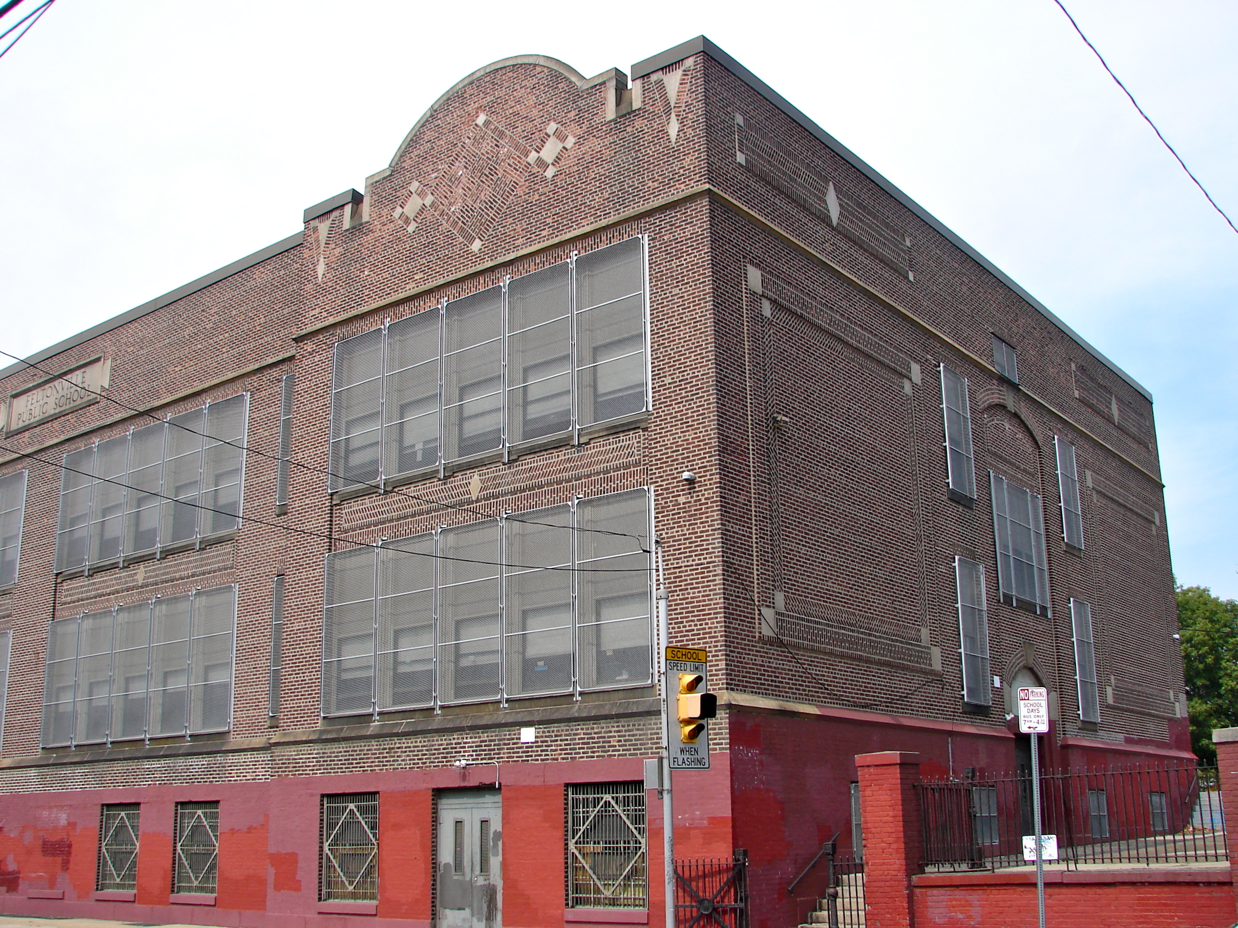 Feltonville School No. 2 in Philadelphia on the NRHP since November 18, 1988. At 4901 Rising Sun Ave., at corner with Roosevelt Road (US 1) in the Feltonville neighborhood of North Philly.